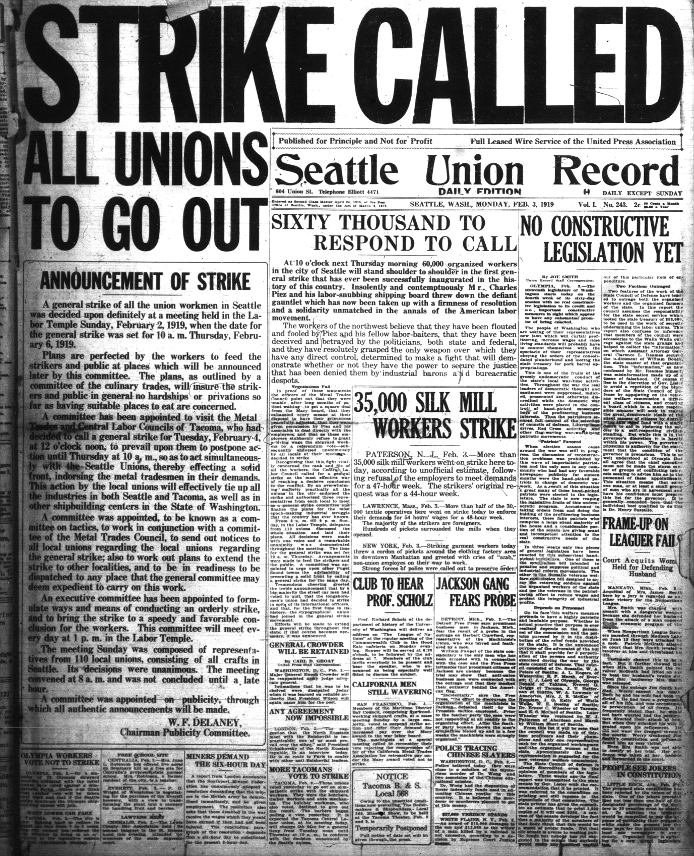 The front page of the Seattle Union Record at the beginning of the Seattle General Strike.